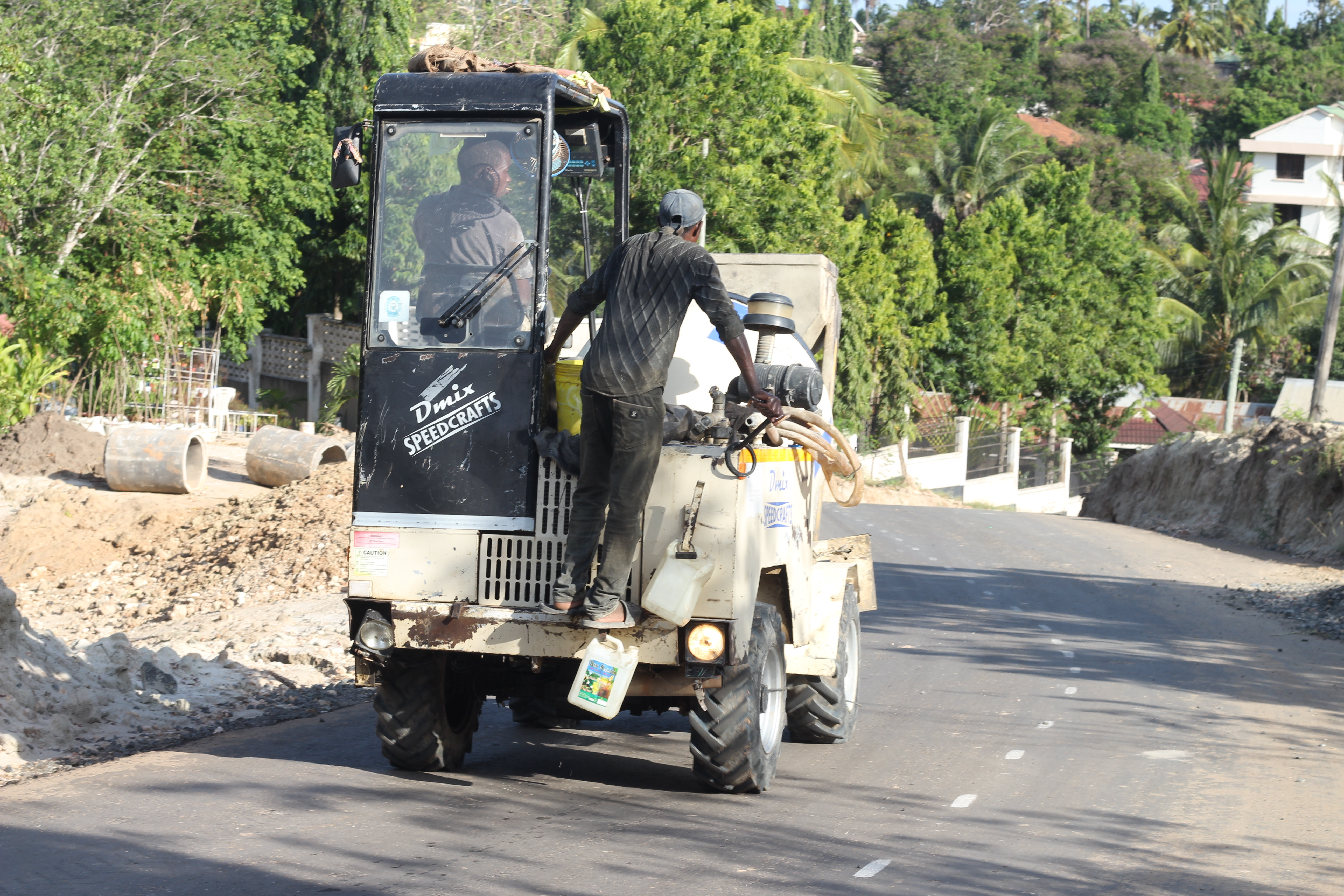 This photo has been taken in the country: Tanzania